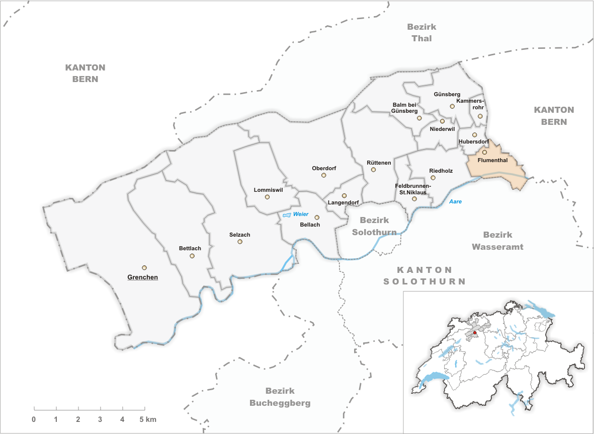 Municipality Flumenthal